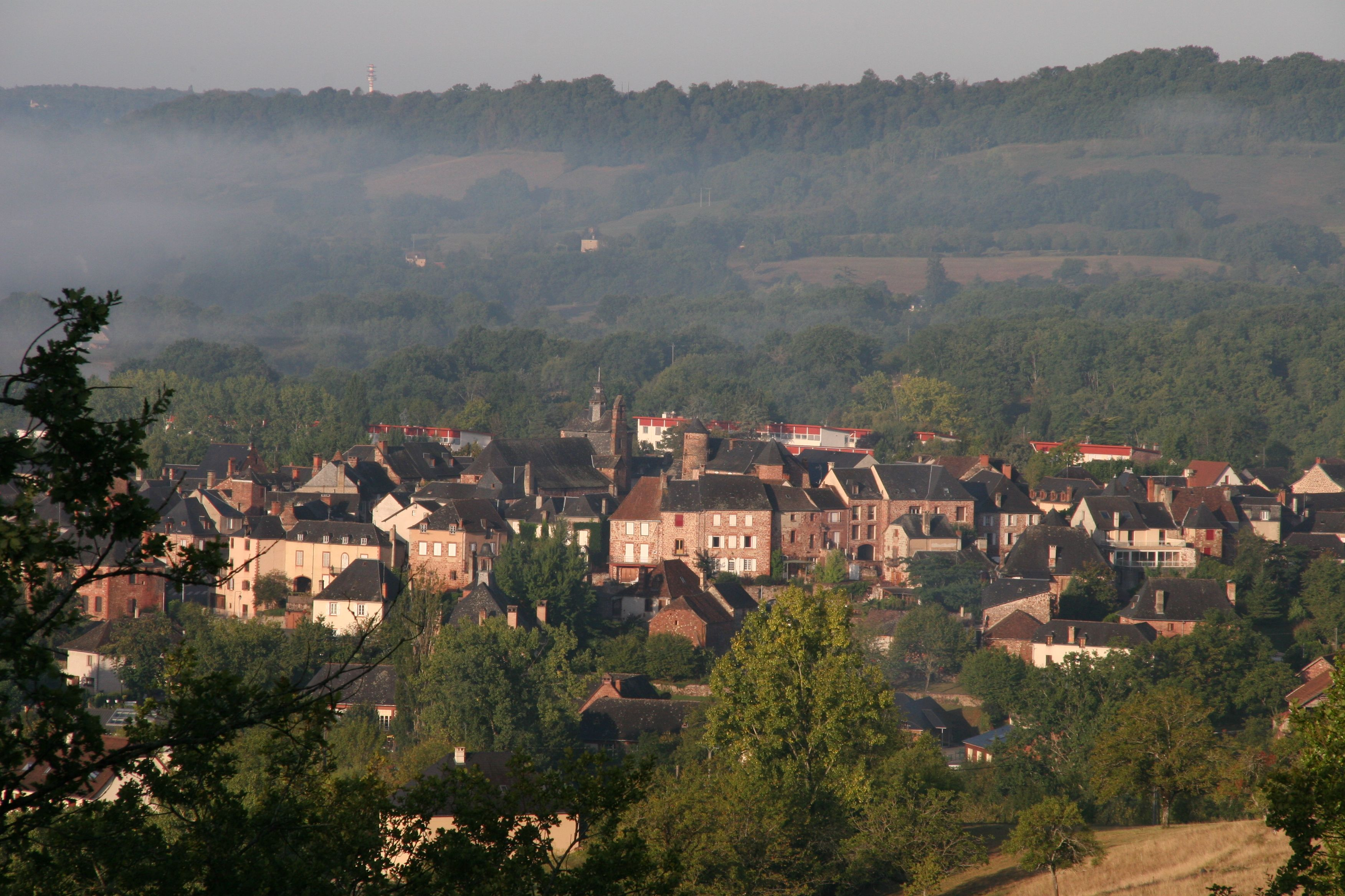 Meyssac: the town